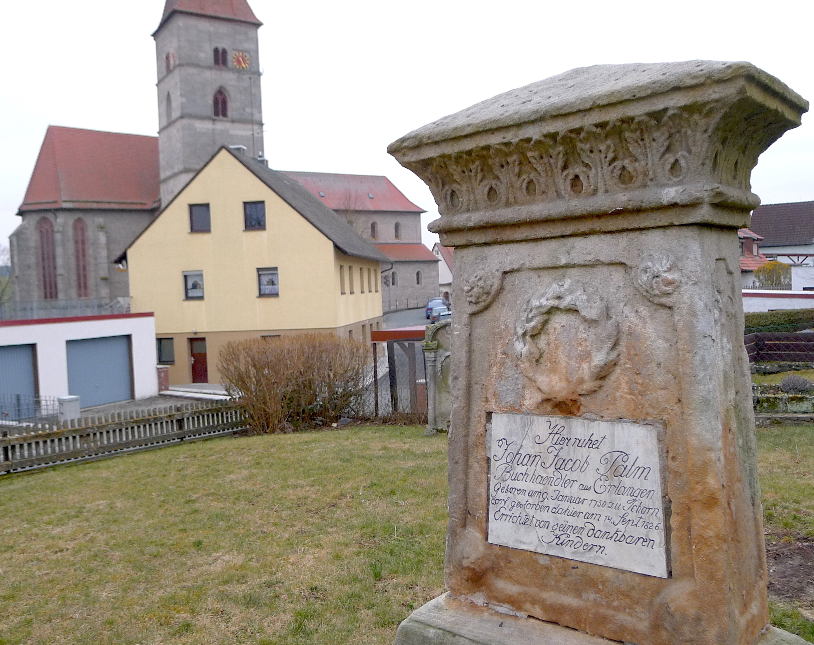 Gravestone of Johann Jakob Palm